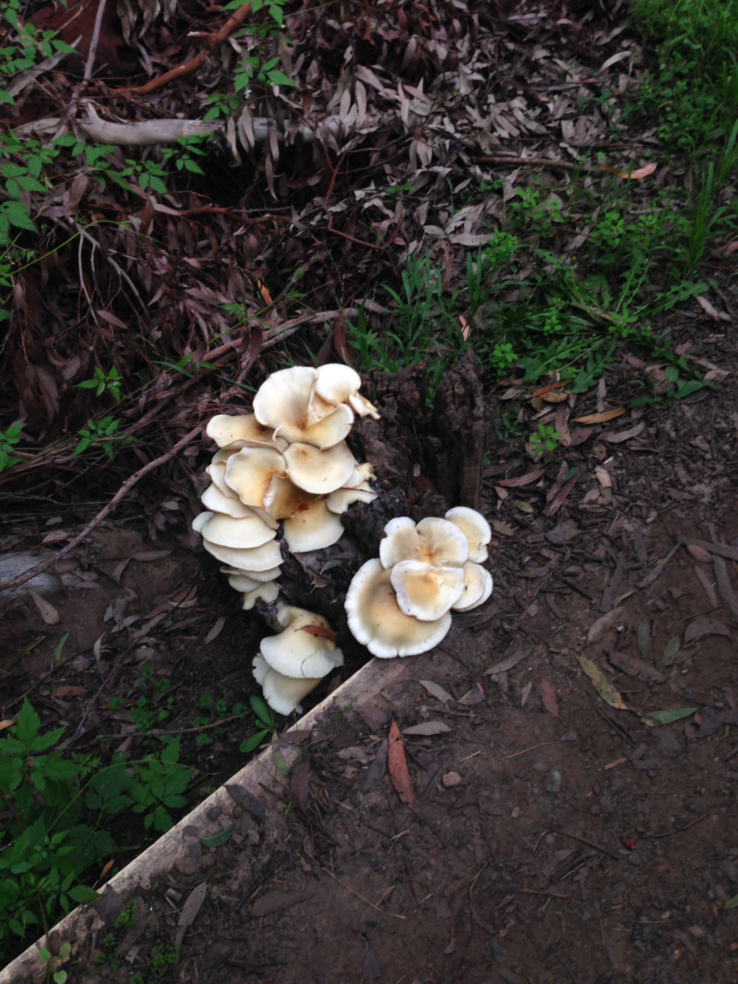 Mushrooms grow in the Ponds Walk during rainy seasons